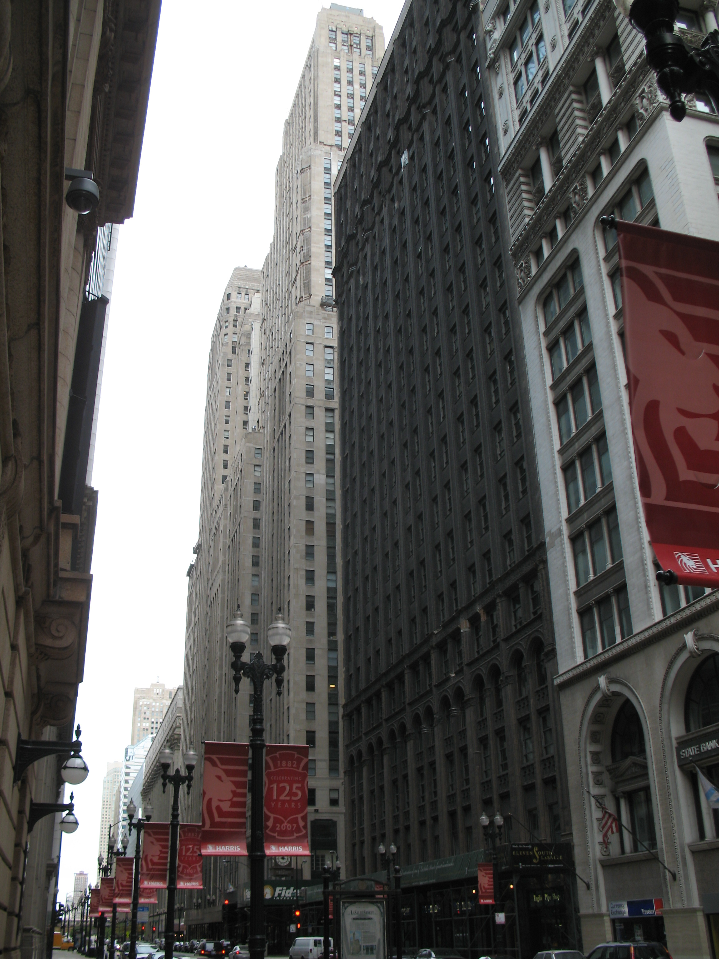 Roanoke Building with One North LaSalle in the background.